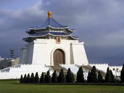 Chiang Kai-shek Memorial Hall, Taipei City, Taiwan. Photo by BoogieMan, 2002/6/23